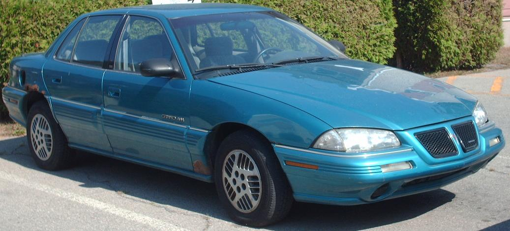 1993-1995 Pontiac Grand Am photographed in Montreal, Quebec, Canada.